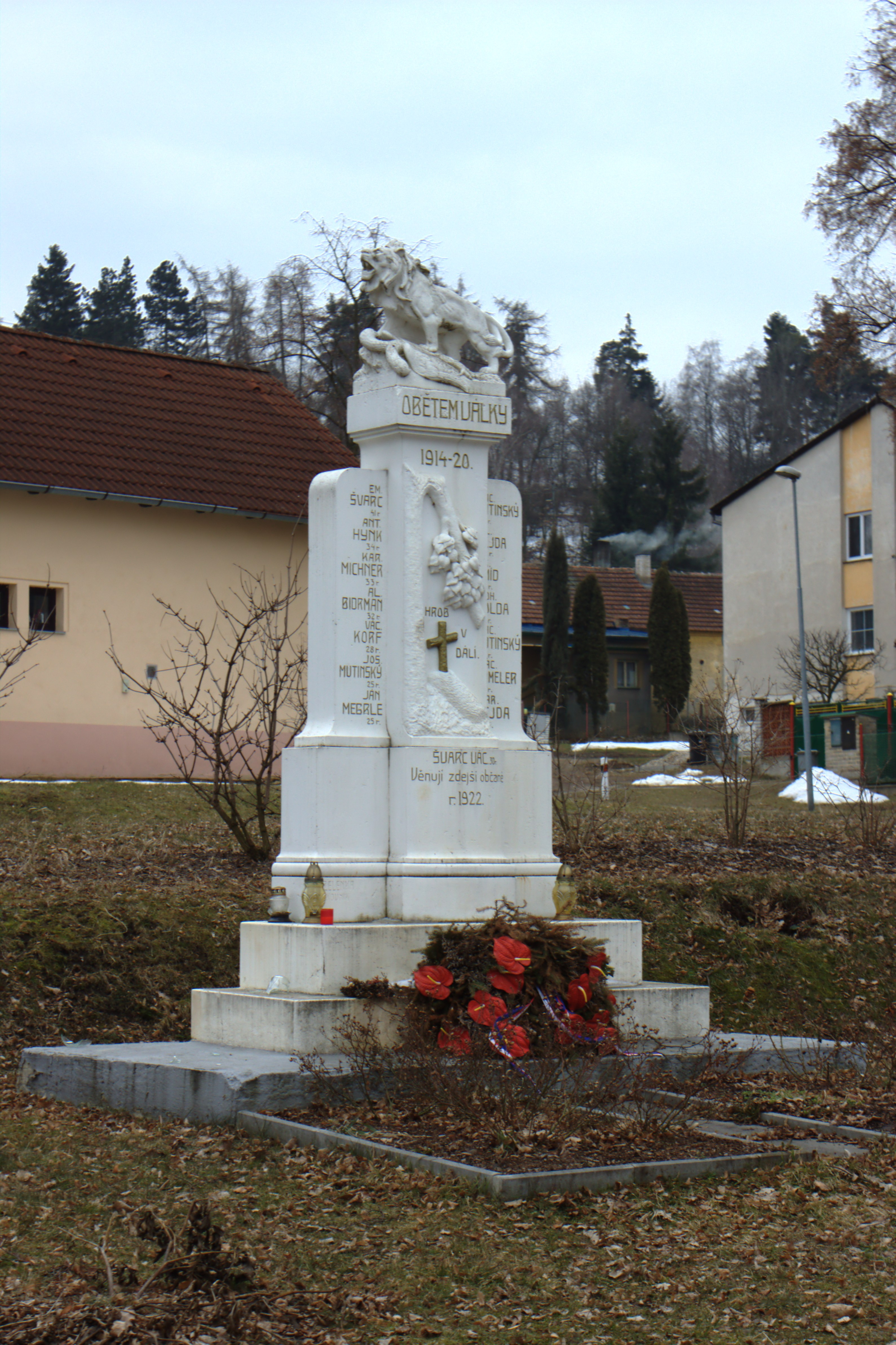 WWI memorial in the town of Zavidov, Central Bohemian Region, CZ